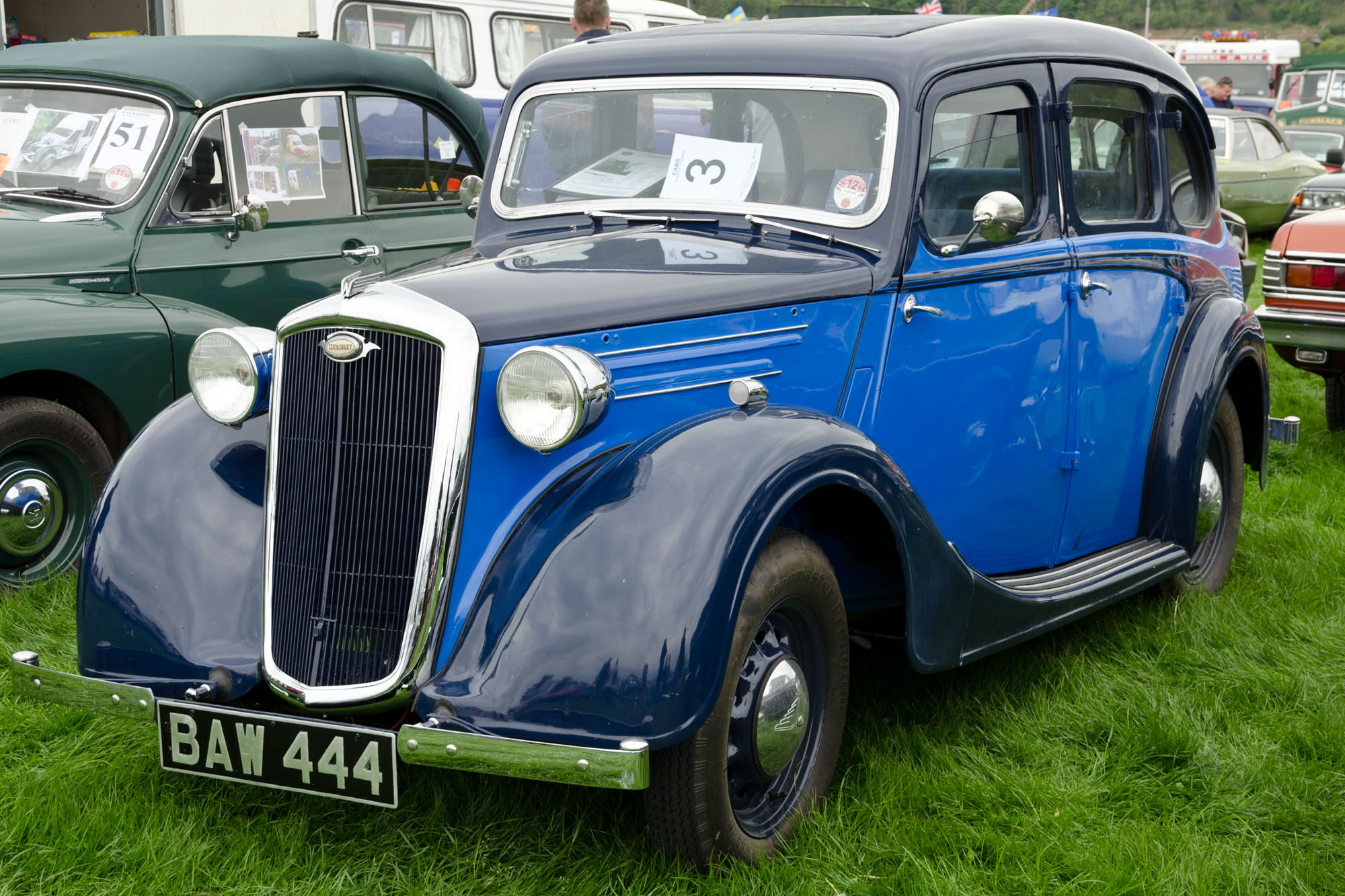 1939 Wolseley Ten (DVLA) first registered 30 June 1939, 1140cc Llandudno Transport Festival 03/05/2014